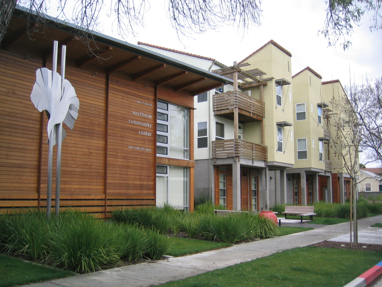 North Side Community - San Jose